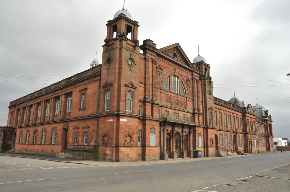 Building on Summertown Road, Govan